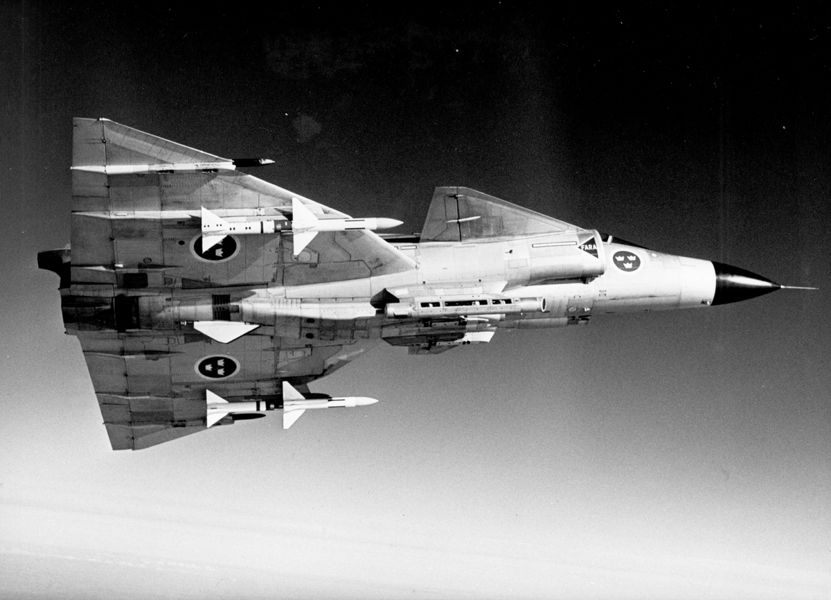 Saab 37 Viggen no. 37301 in the air over FMV Vidsel Test Range, Sweden. It's equppied with Skyflash air-to-air missiles, Swedish Air Force designation Robot 71.